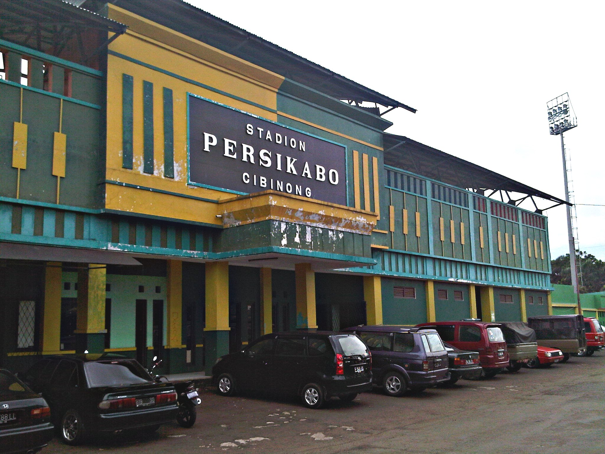 Stadion Persikabo, the entrance